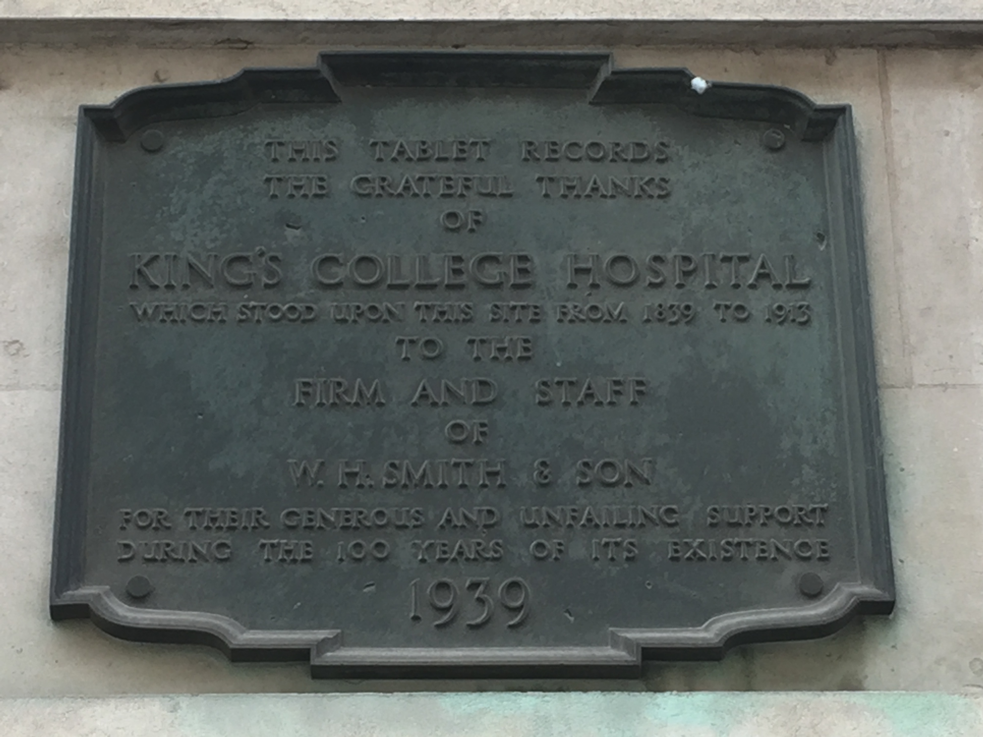 Plaque commemorating King's College Hospital building situated on LSE grounds